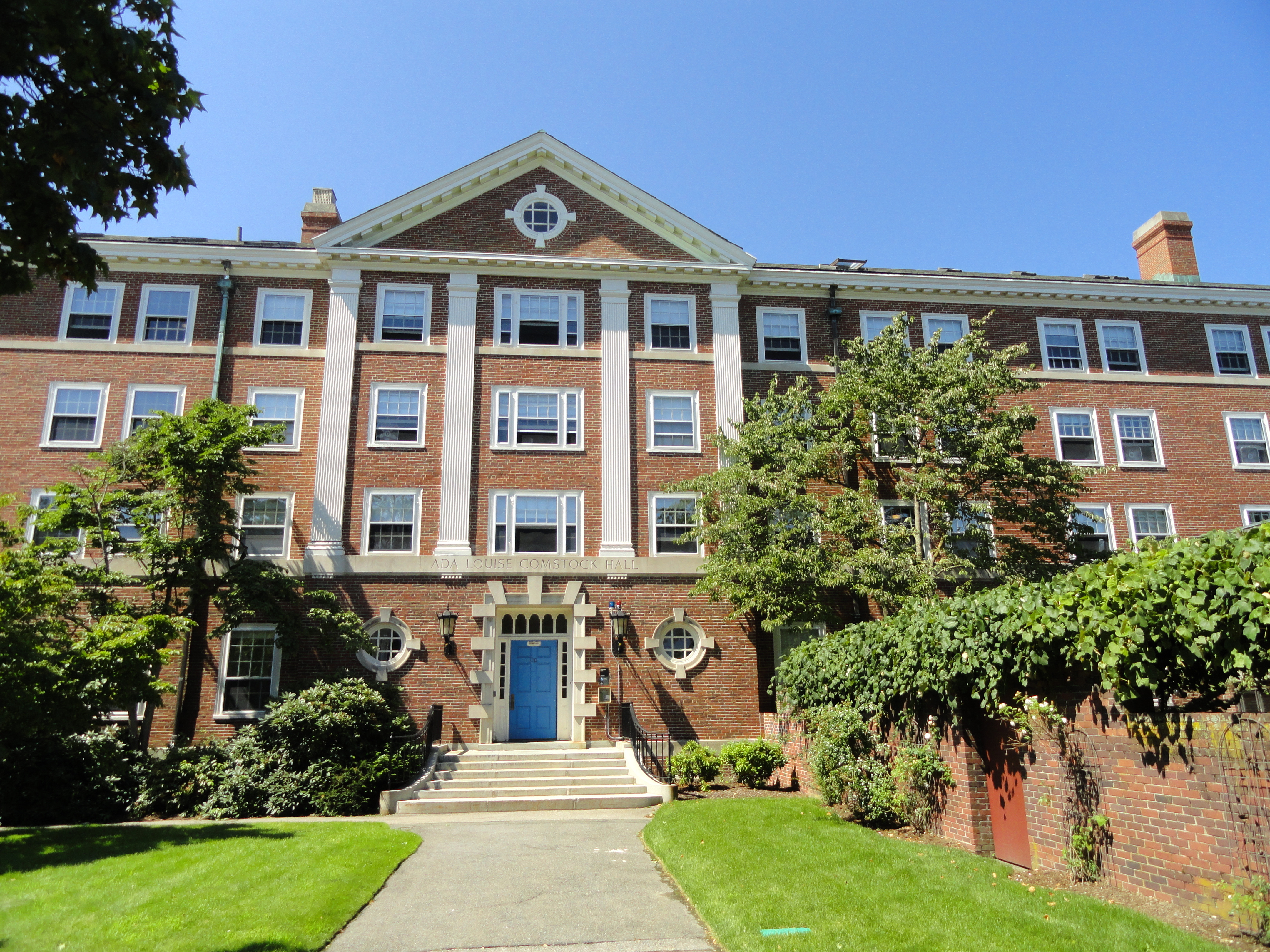 Ada Louise Comstock Hall, Radcliffe Quadrangle, Harvard University, Cambridge, Massachusetts, USA.